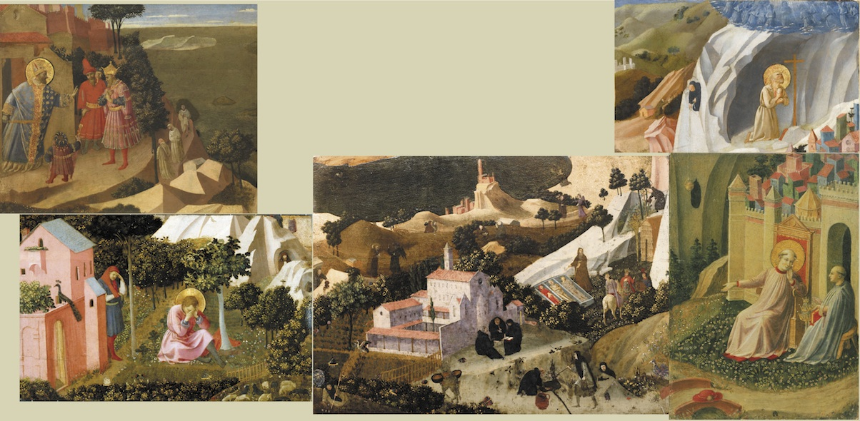 different activities of everyday monastic life are depicted: work in the fields, spiritual assemblies near the convent. It presents the figures of the Three Dead and the Three Living, a vanitas (appearing for example in the fresco of The Triumph of Death, next to Buffalmacco’s Thebaid at the Camposanto in Pisa. Along with the scenes from the lives of Saint Augustin, Romuald, Gregory and Benedict, the original work, according to Michel Leclère, was "a sort of Thebaid, around a convent near the sea. A Thebaid is a representation of the lives of the Church Fathers in the desert. The panels original measure are about 46 x 92 cm.